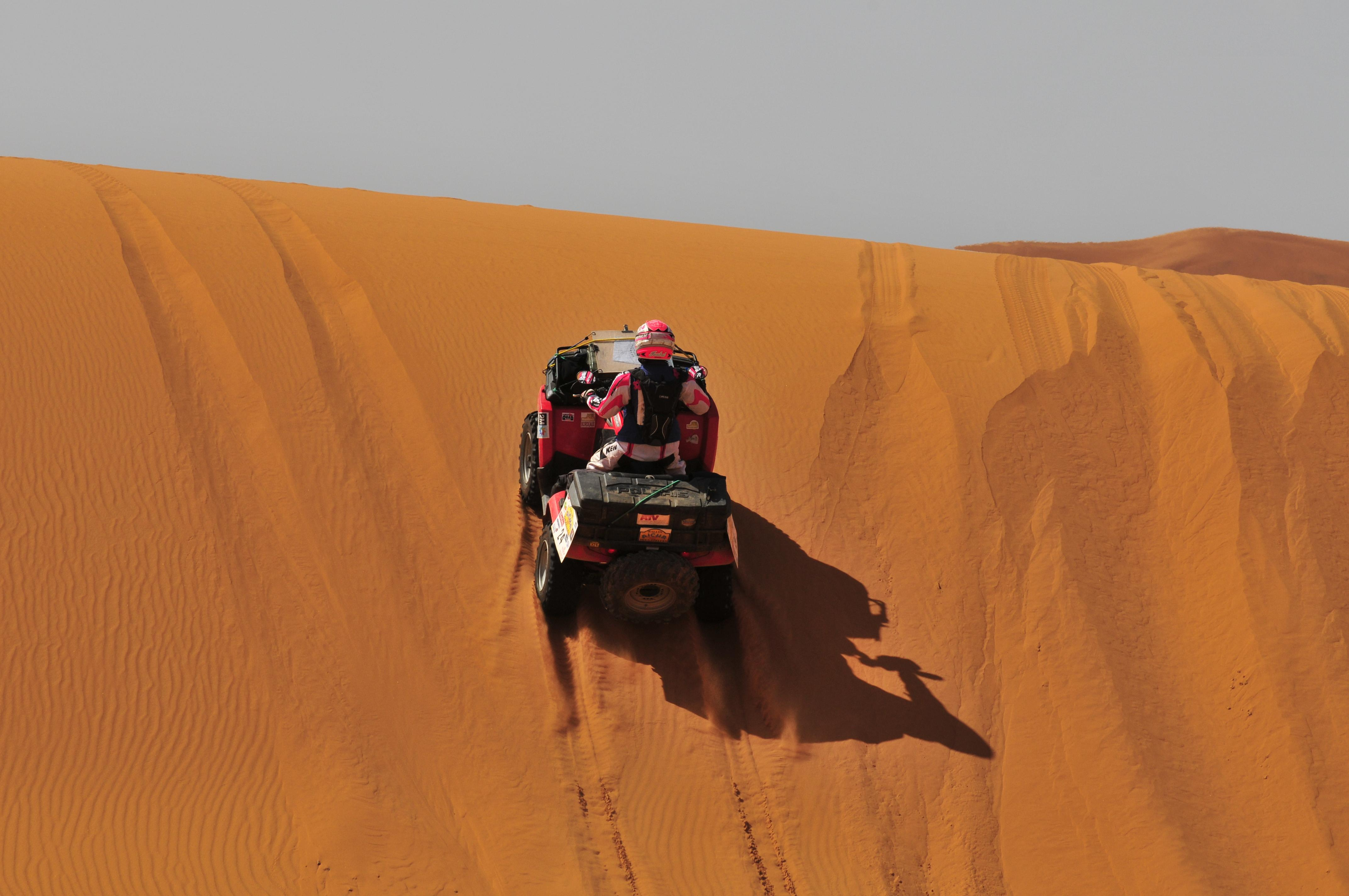 The winning quad Team 24 climbing the dunes